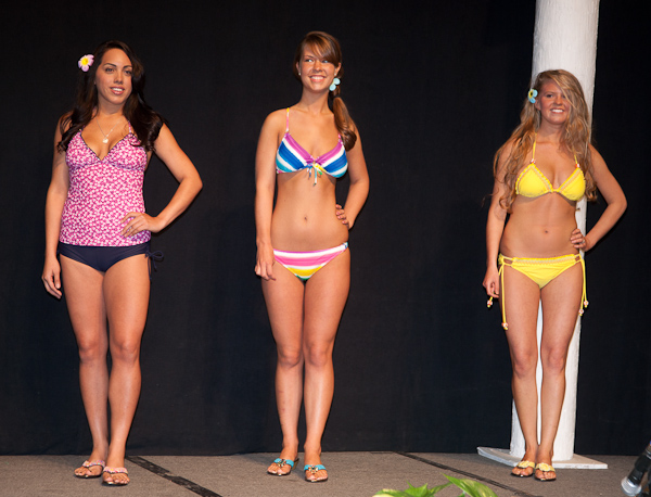 Every year there is a Women's Show in Anchorge, Alaska - it's a cool event to attend, even as a guy. The Women's Show included various fashion shows - this photo shows clothing on sale at Run to the Sun - a local beachwear, swimsuit, outdoor clothing, and also a tanning salon. The models are very nice but the lighting at the arena is ugly and it gives me problems all the time. Please ignore the lighting and enjoy the models! I took this photo in September 2011 at the Sullivan Arena in Anchorage, Alaska.